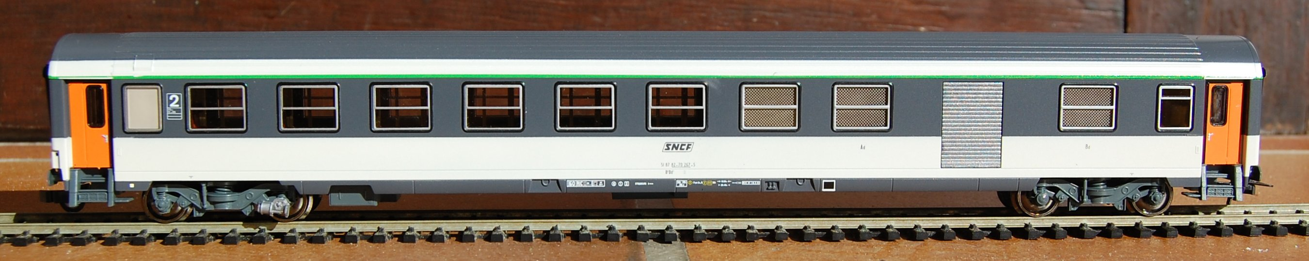 Corail coach Vu B6Du, SNCF, France. HO scale model by Roco. Modèle réduit Roco d'une voiture Corail Vu B6Du, SNCF, France.